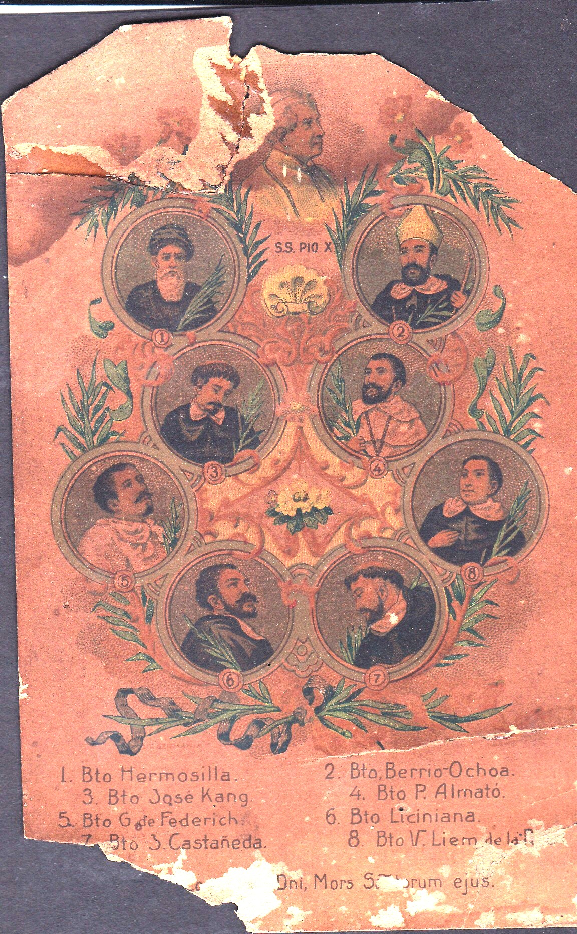 1906 Prayer Card commemorating the beatification of the martyrs (now saints) of Vietnam officiated by Pope Pius X. Found in an old urna.